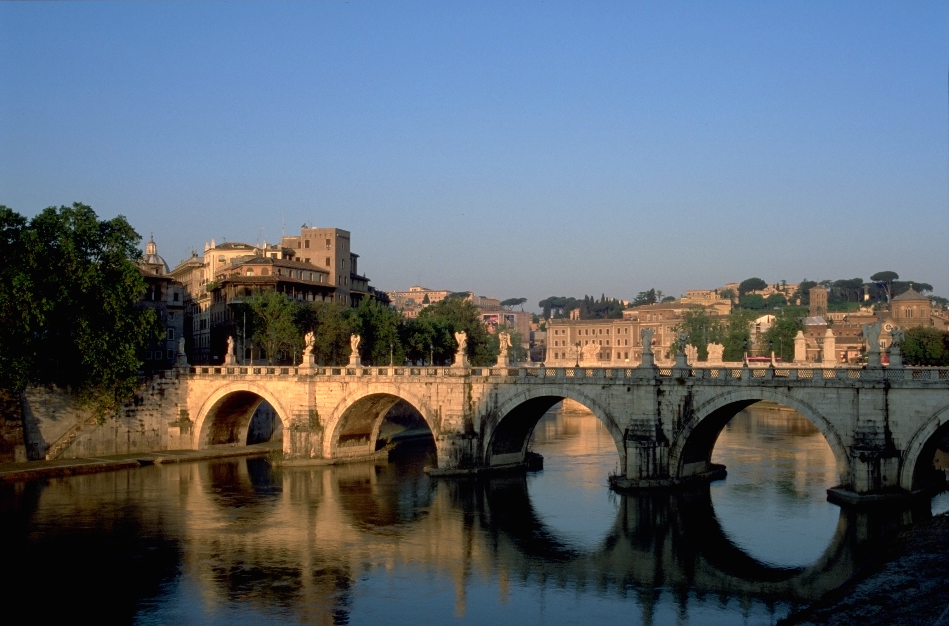 Sant'Angelo Bridge Photo was taken using the following technique: Film: Fuji Velvia Lens: 4/35-70 Filter: Body: Minolta 9000 Support: Manfrotto 190B Image with Information in English Bild mit Informationen auf Deutsch